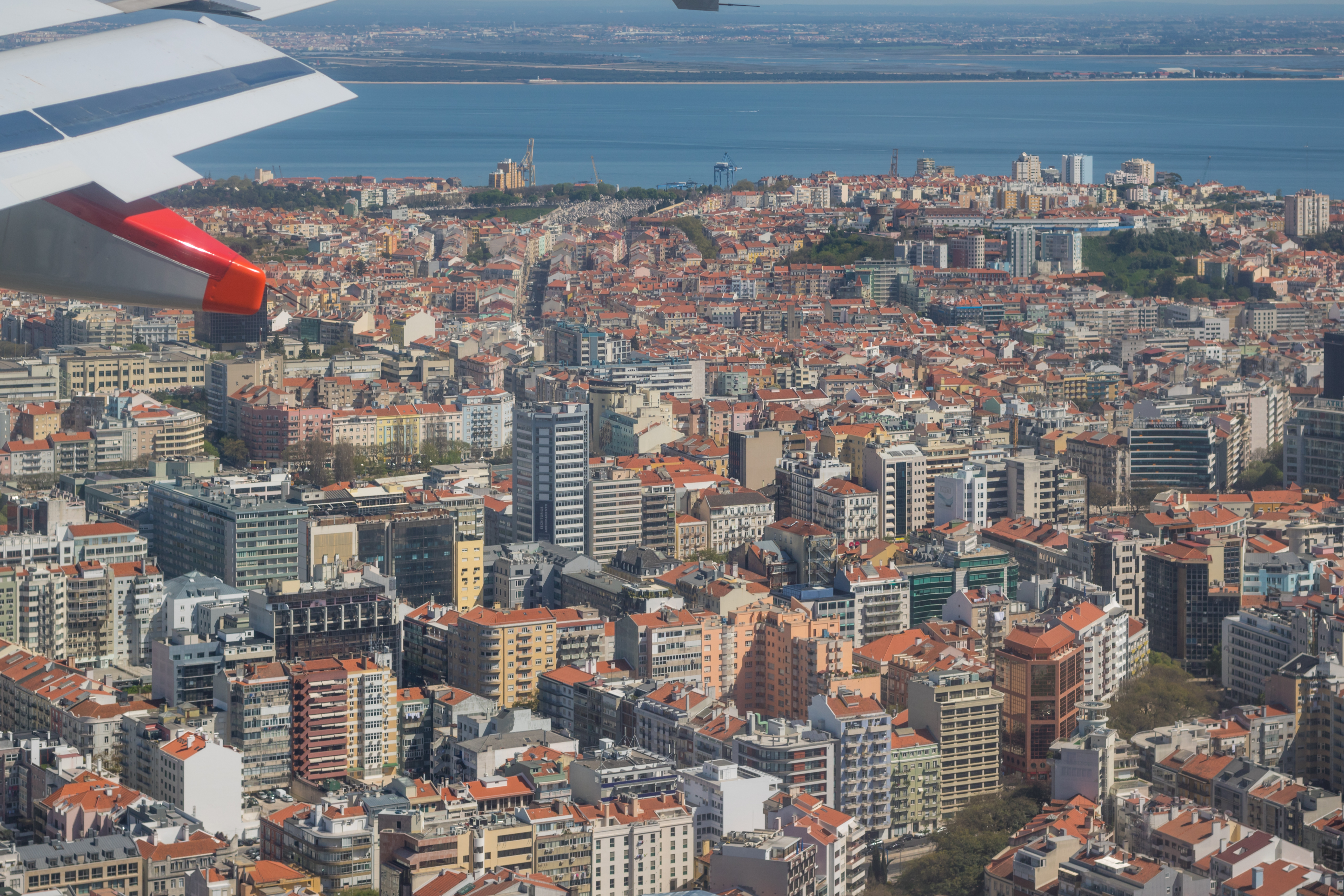 Lisbon from above